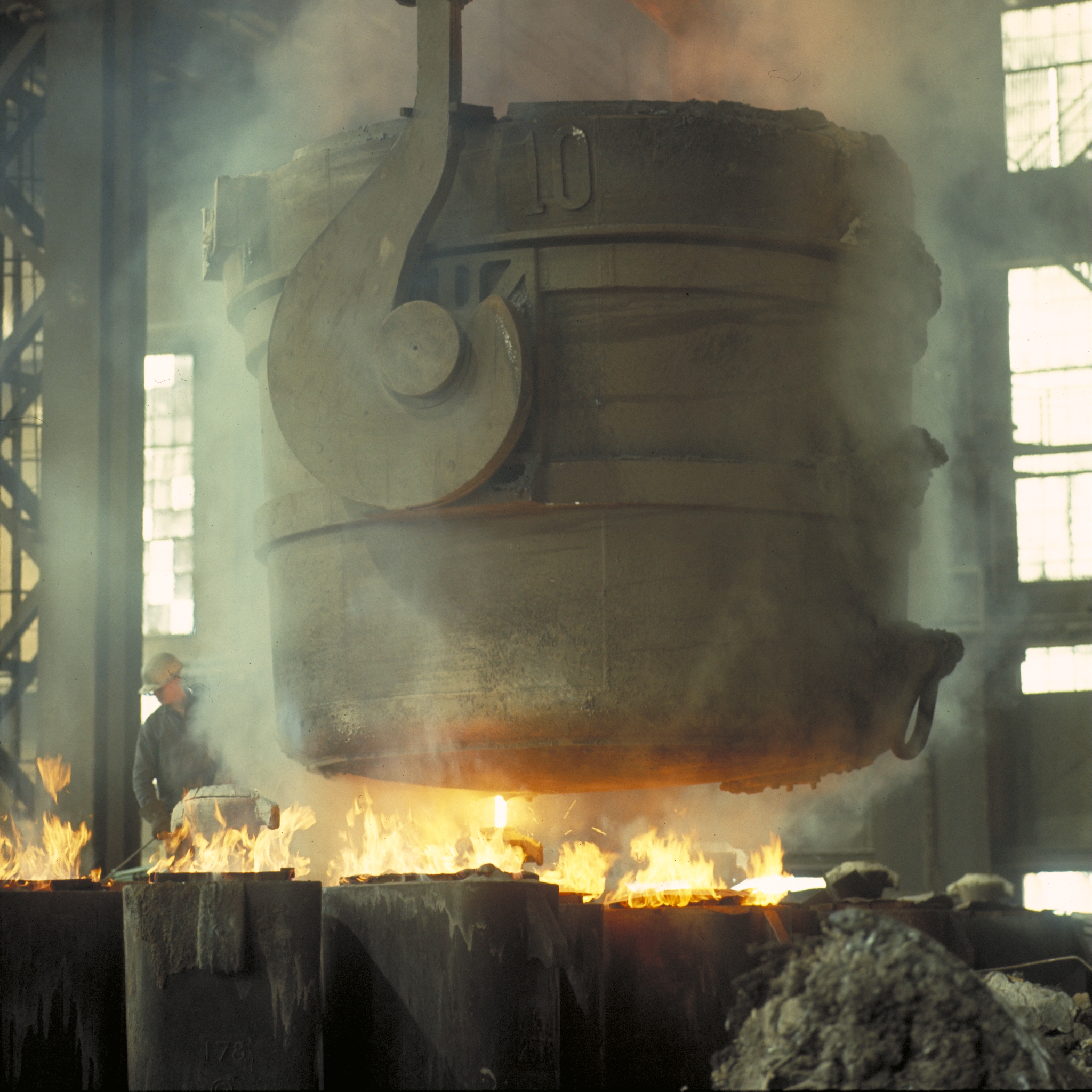 Steel Mill. The picture is probably from the mid-1960s.